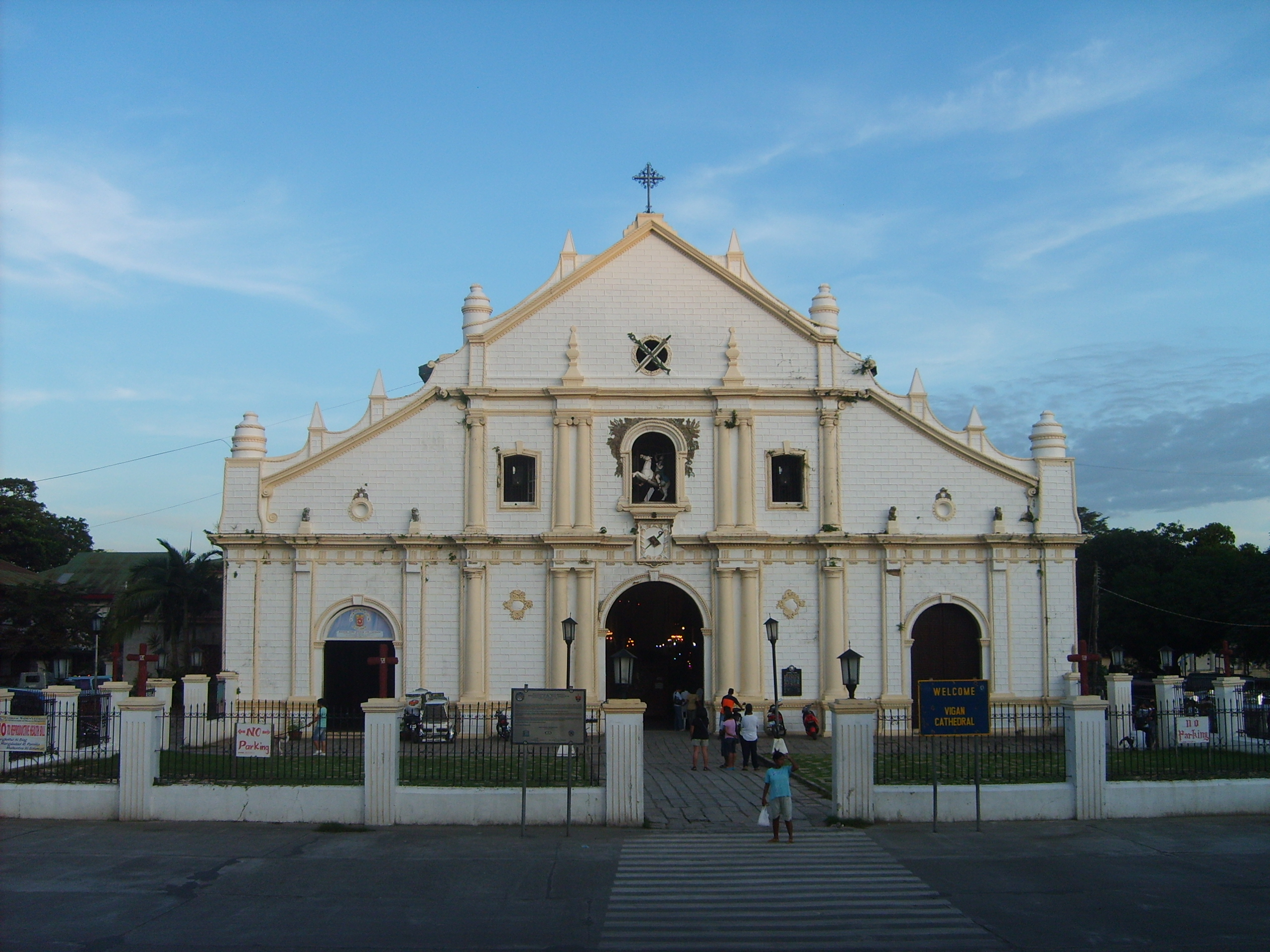 The facade of Vigan cathedral, Ilocos Sur, Philippines.